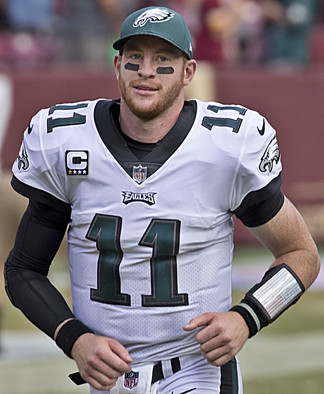 Carson Wentz vs. Redskins 9/10/17.